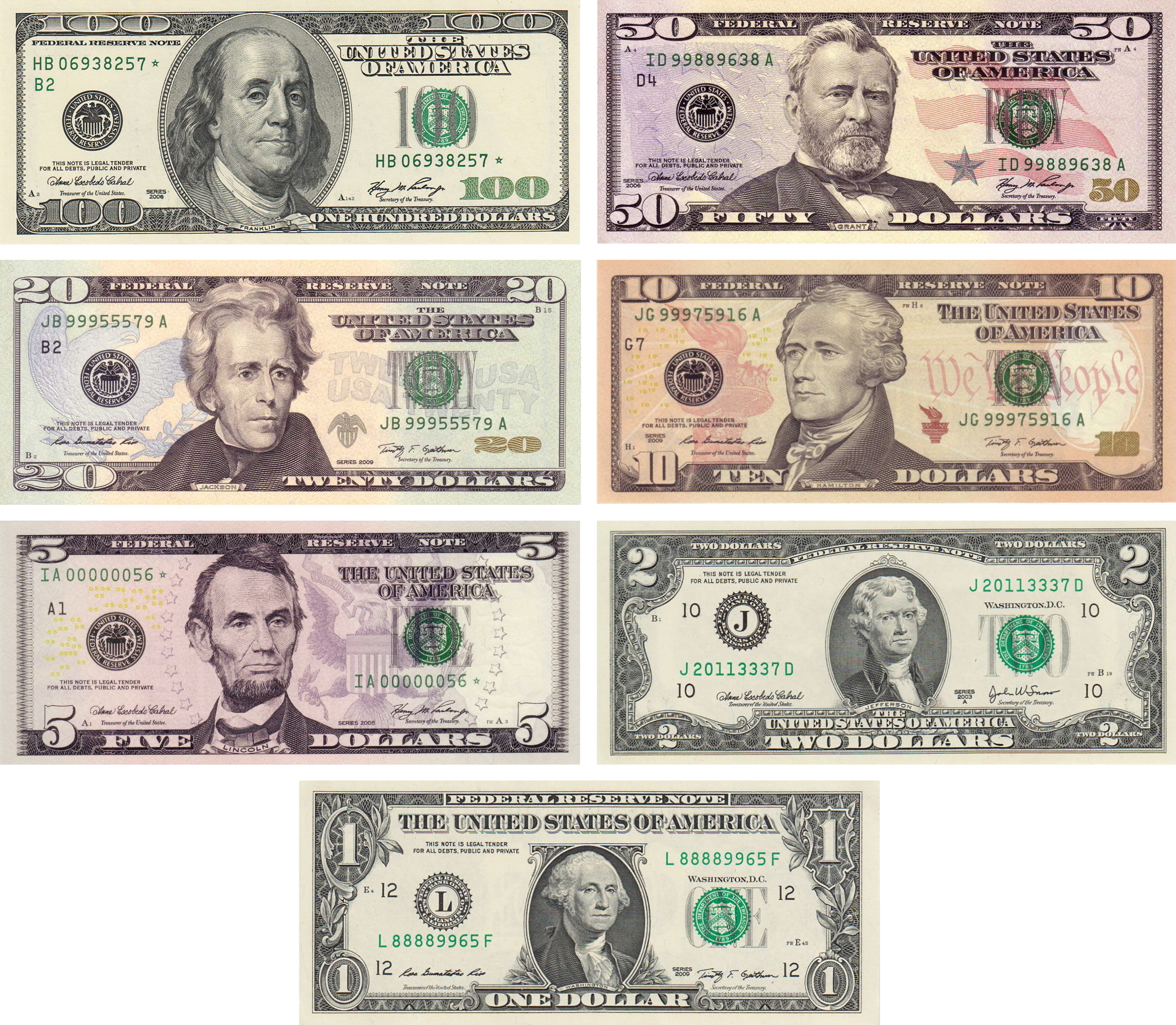 Includes new banknotes